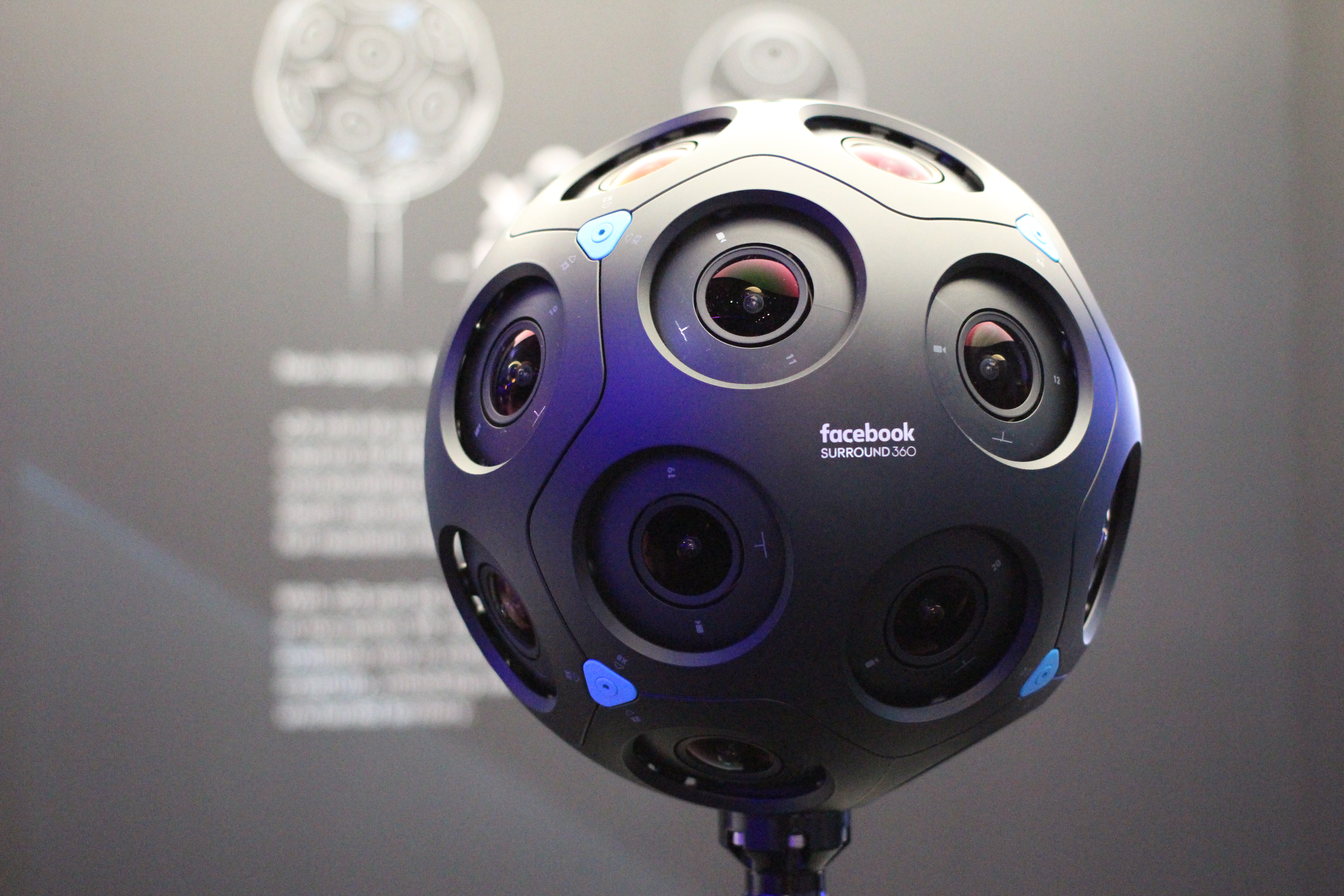 Facebook's x24 360 camera